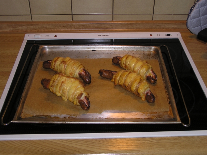 preparing sausage in Dough, with cheese. step 5